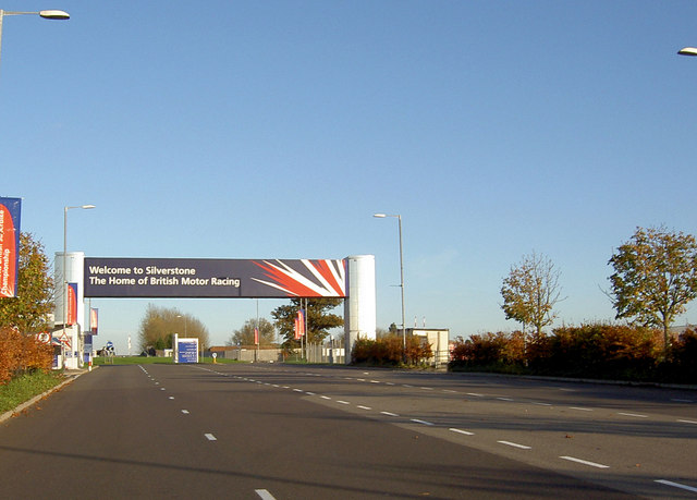 The home of British Motor Racing Entrance to Silverstone.